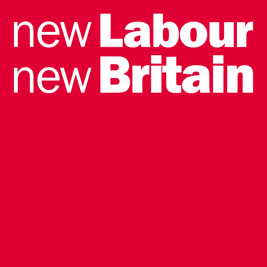 Basic mock-up of the 'New Labour, New [Life for] Britain' logo that was used by the British Labour Party during the New Labour period.